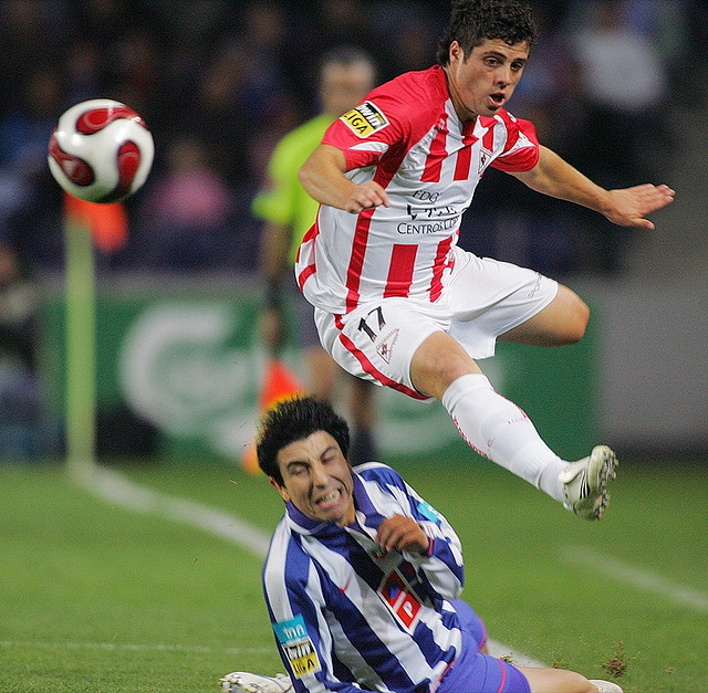 Vieirinha in Leixões S.C.